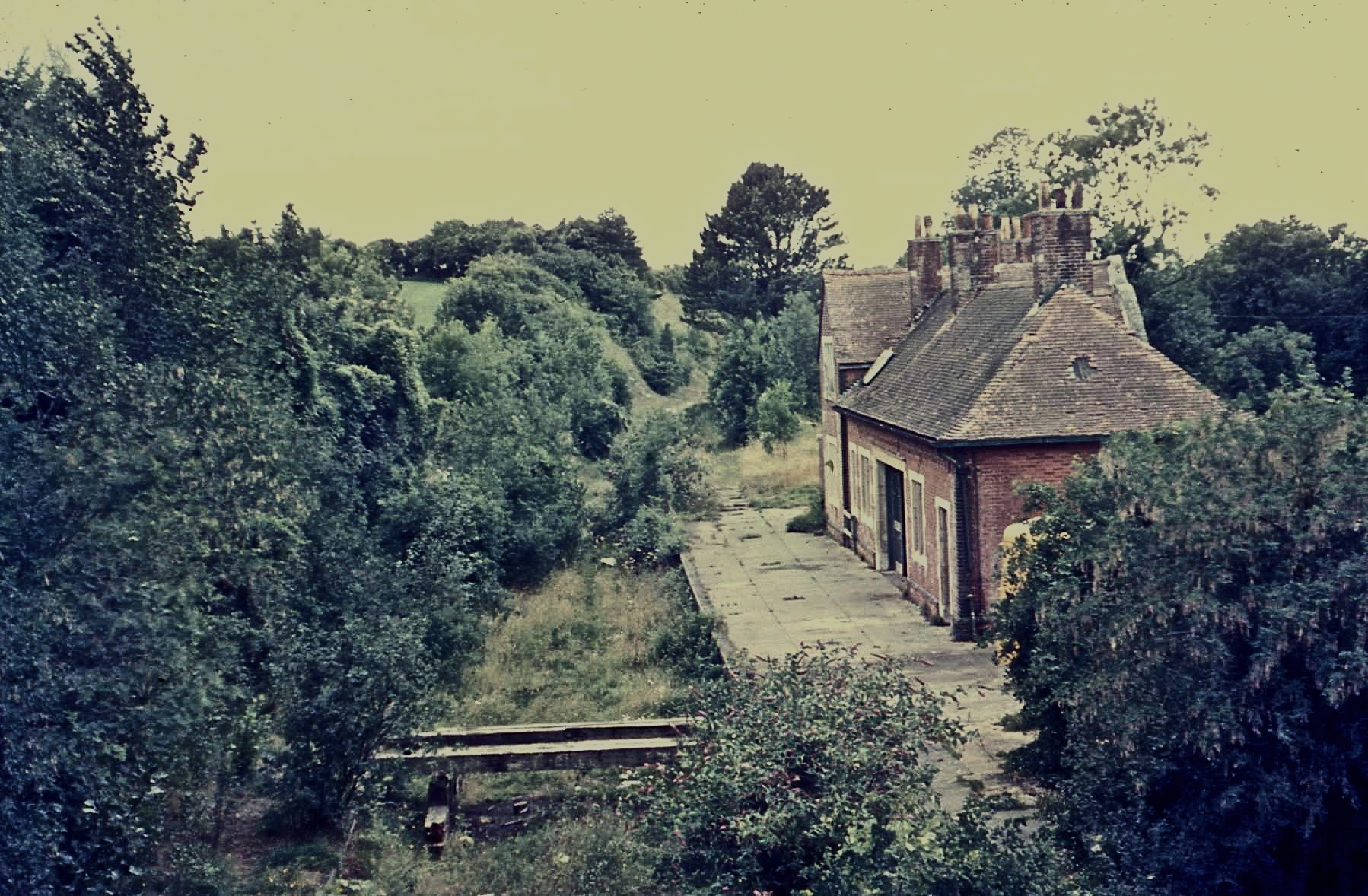 1970 in poor repair